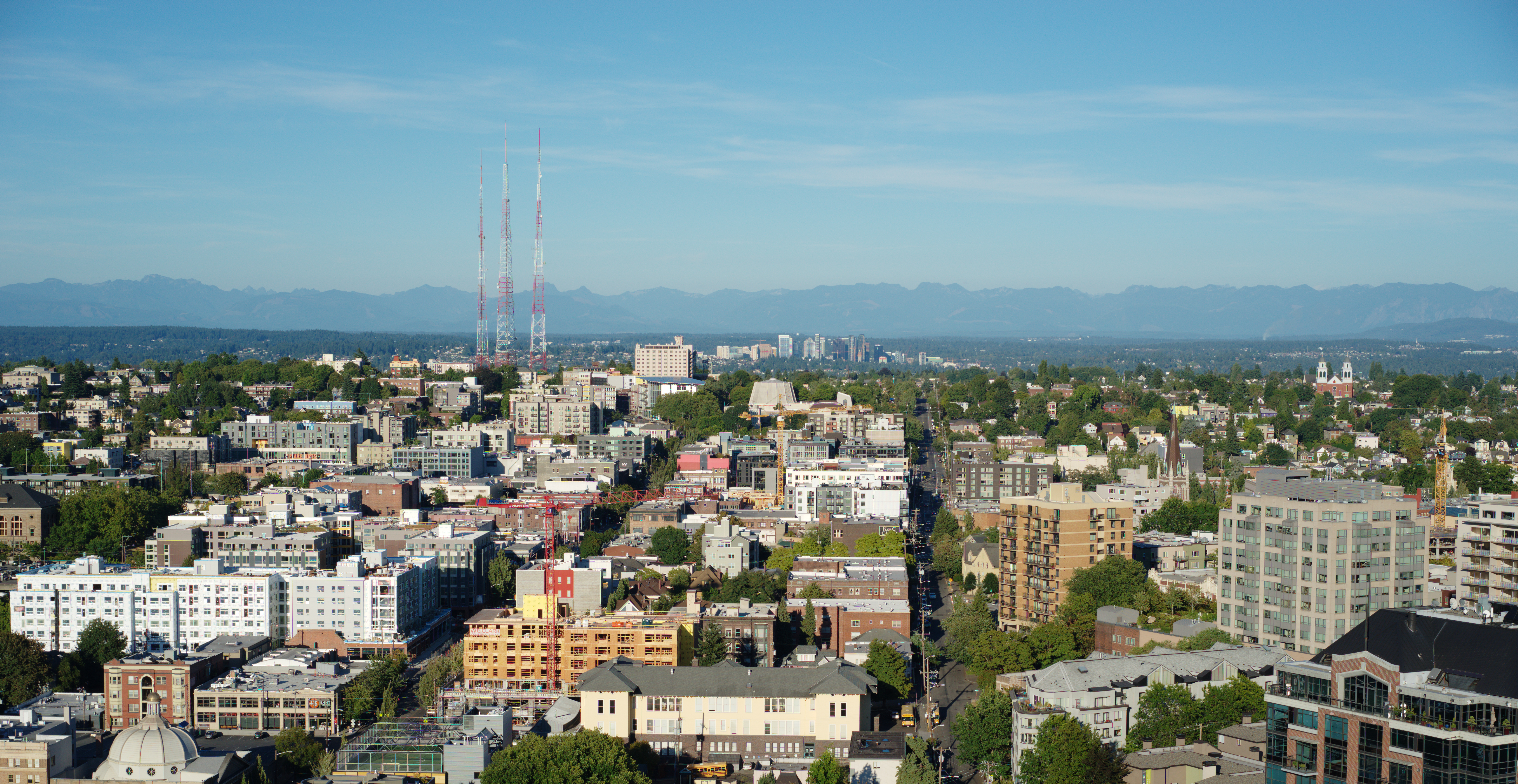 Capitol Hill (Seattle) as seen from 9th Avenue and Pine Street looking east. Bellevue, WA is visible in the distance.